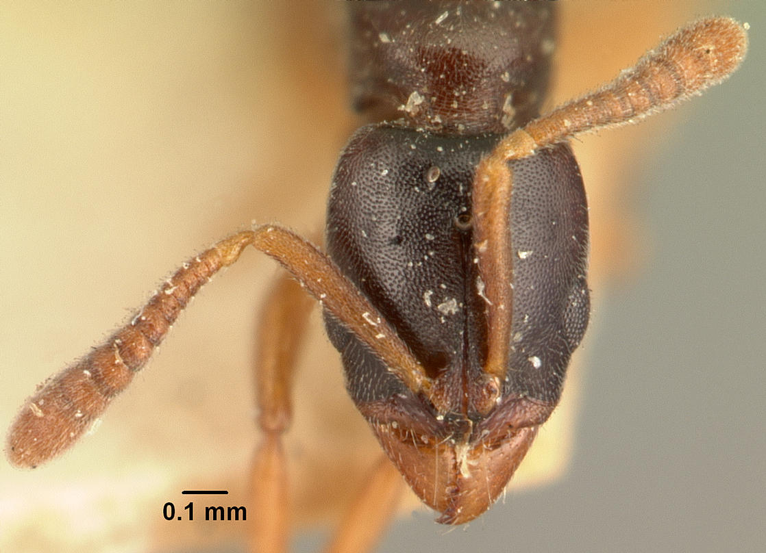 Head view of ant Hypoponera punctatissima indifferens specimen casent0101793.